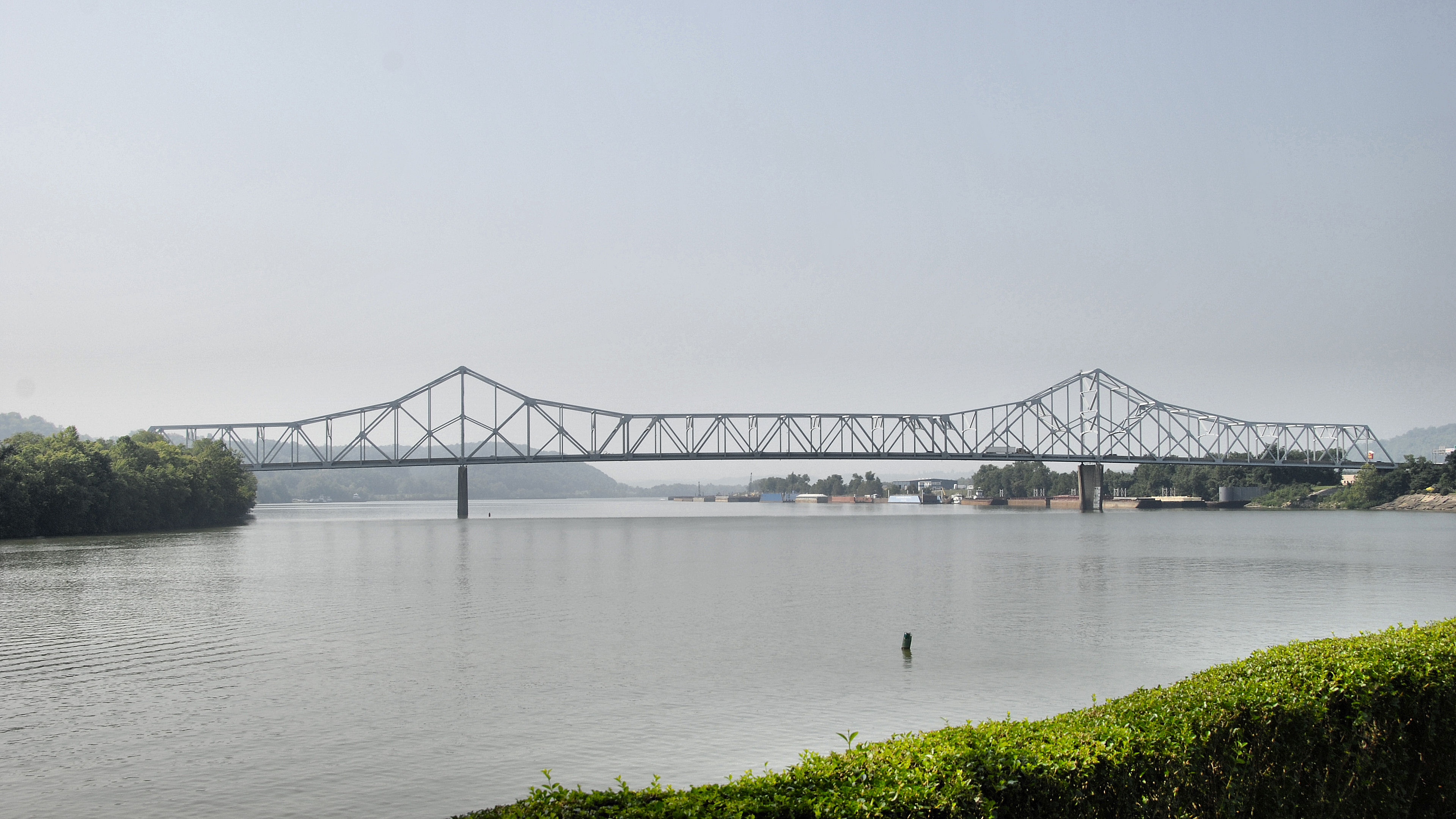 The Silver Memorial Bridge is a cantilever bridge which spans the Ohio River between Gallipolis, Ohio and Henderson, West Virginia.